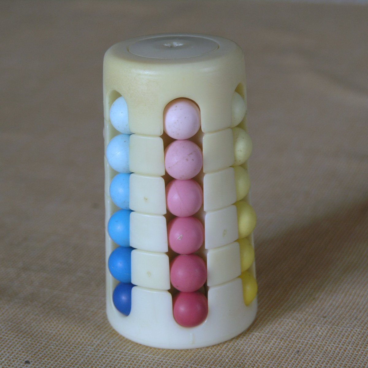 Babylon Tower